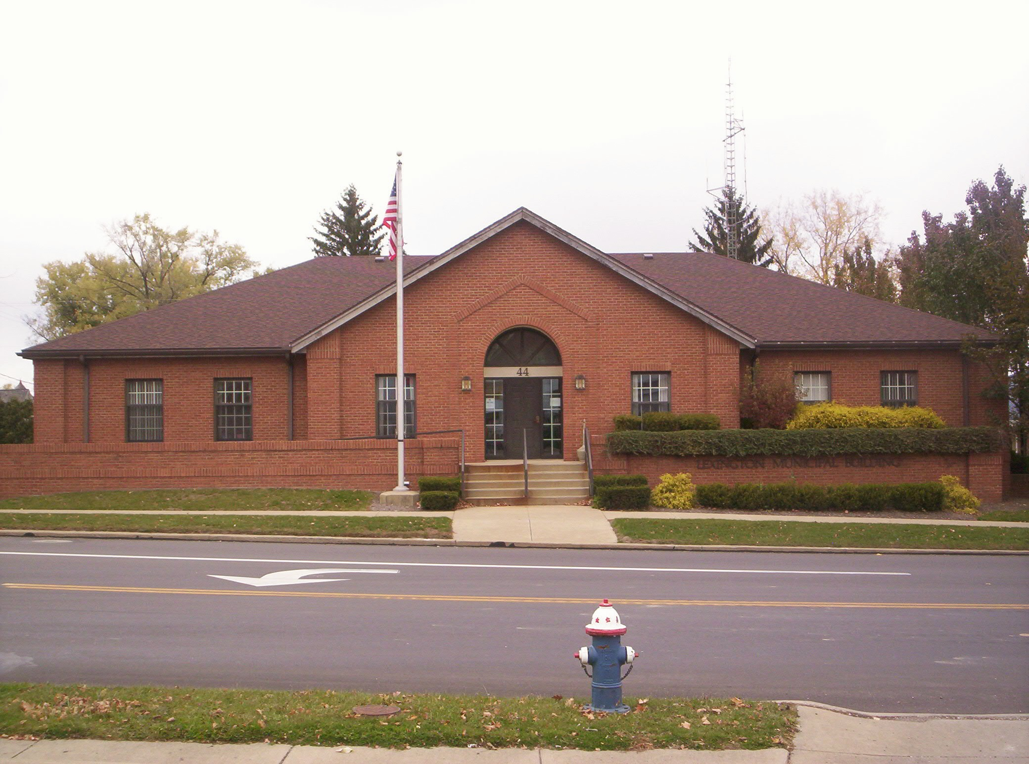 A view of the Lexington Municipal Building in downtown Lexington, Ohio.